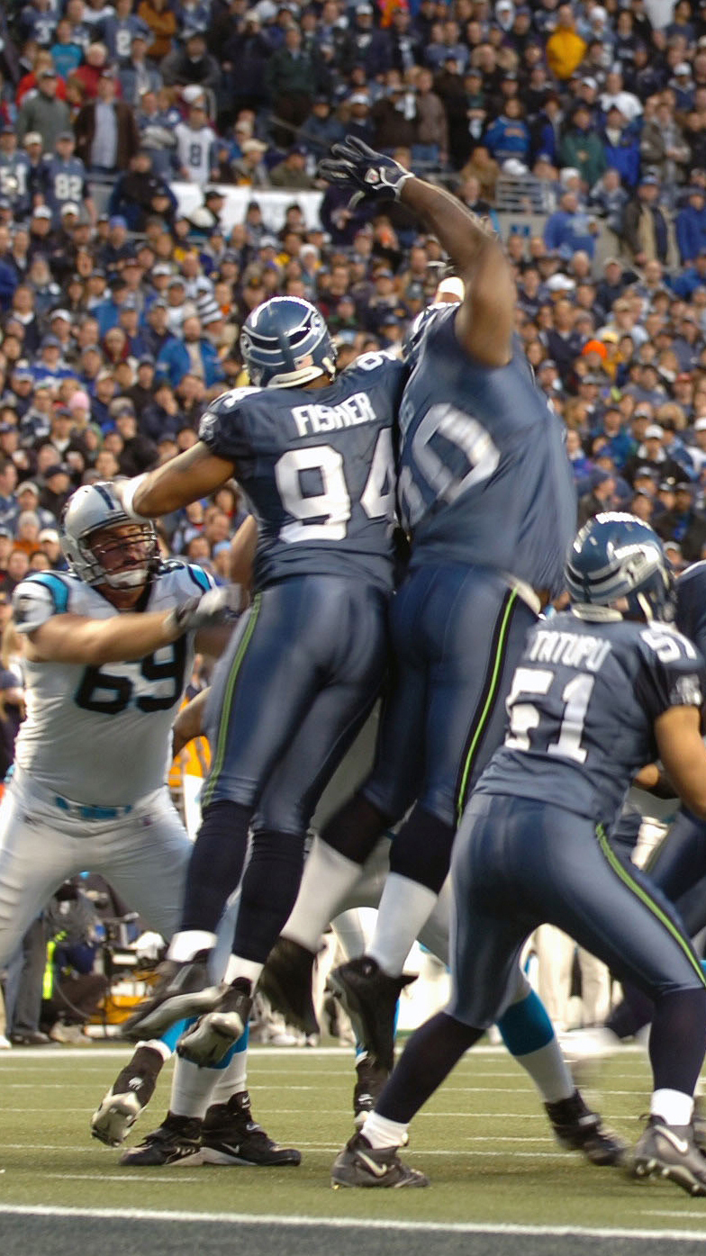 Defensive end (94) Bryce Fisher, a captain in the Washington Air National Guard, goes airborne to block a Carolina Panthers' extra-point kick during the Seattle Seahawks' 34-14 National Football Conference championship game at Qwest Field in Seattle on Jan. 22, 2006. (#69 is Jordan Gross of the Carolina Panthers.)